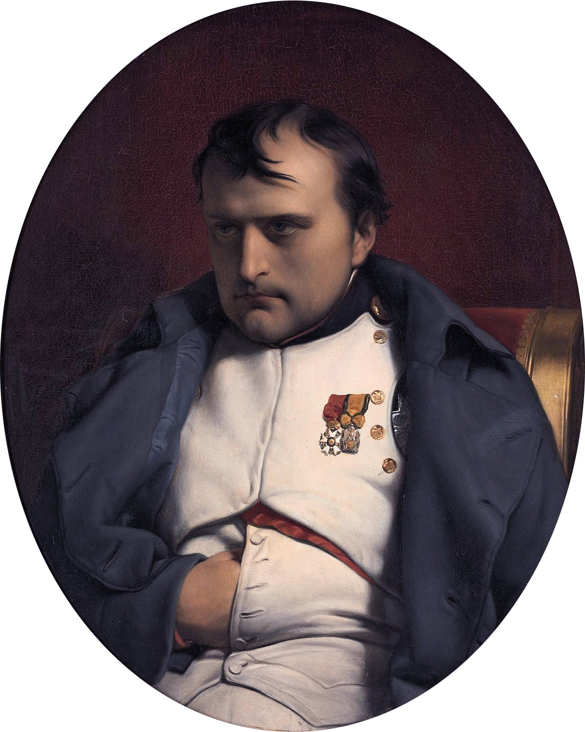 Napoleon at Fontainebleau, 31 March 1814 signed and dated 'Paul De la Roche 1845' (centre left) oil on canvas 82 x 65 cm